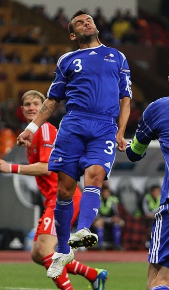 Andorran football player Marc Bernaus during match against Russia.